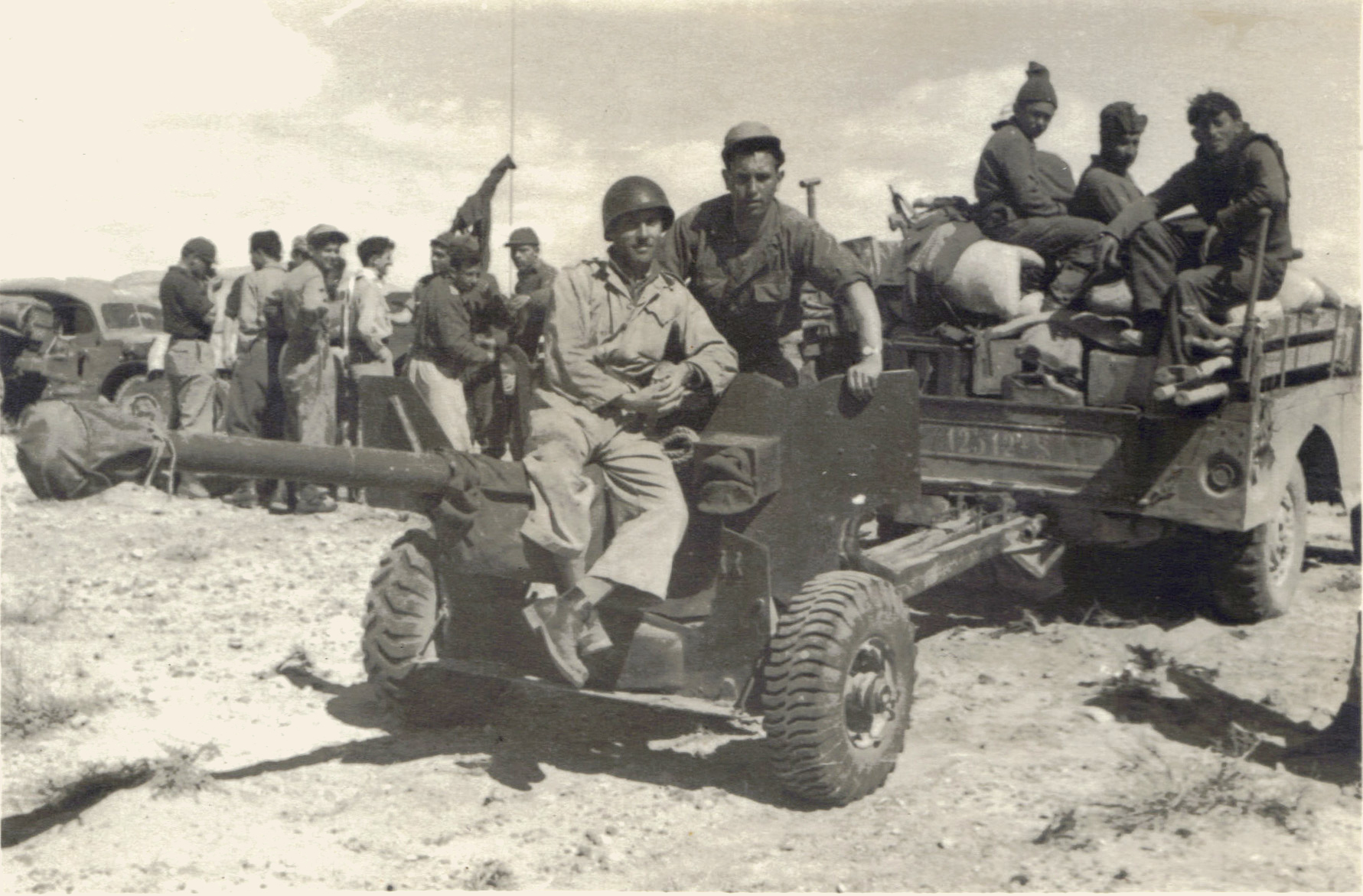 golani 1949 , Israel Defense Forces